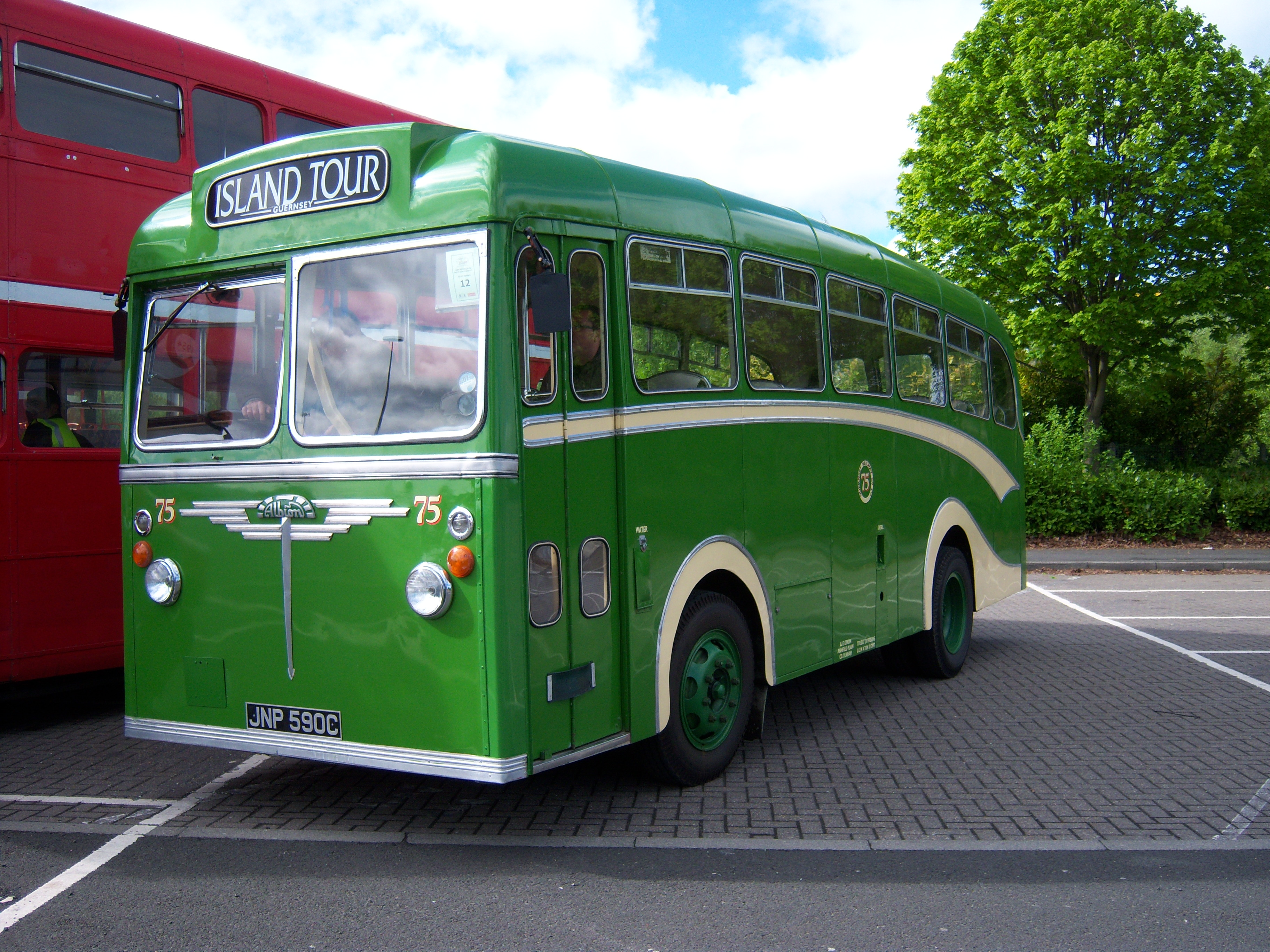 Preserved bus on display at the 2009 Metrocentre bus rally.